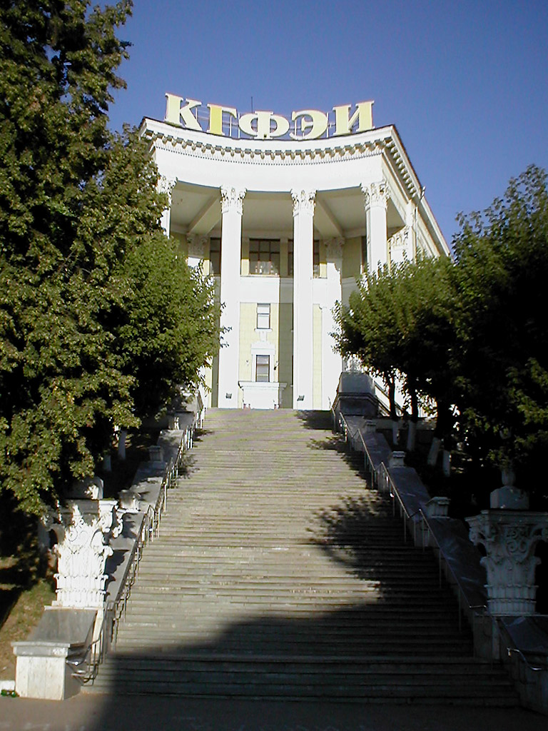 stairs portal of KSFEI building in Kazan